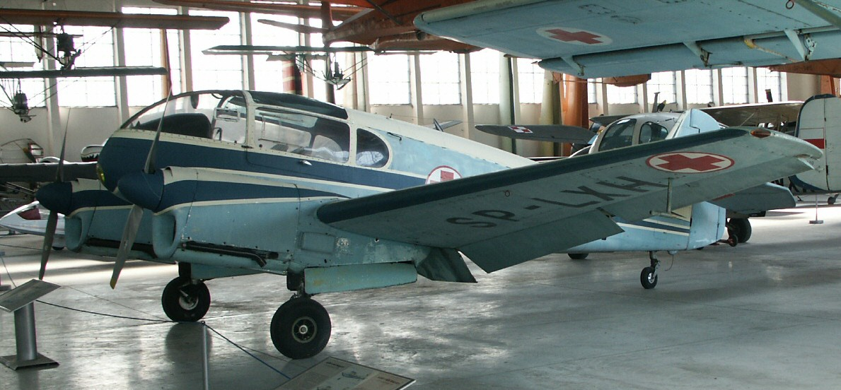 Aero Ae-145 - Czechoslovakian utility aircraft with Polish Air Ambulance Service markings at the Polish Aviation Museum in Kraków, produced 1959, nr.172011